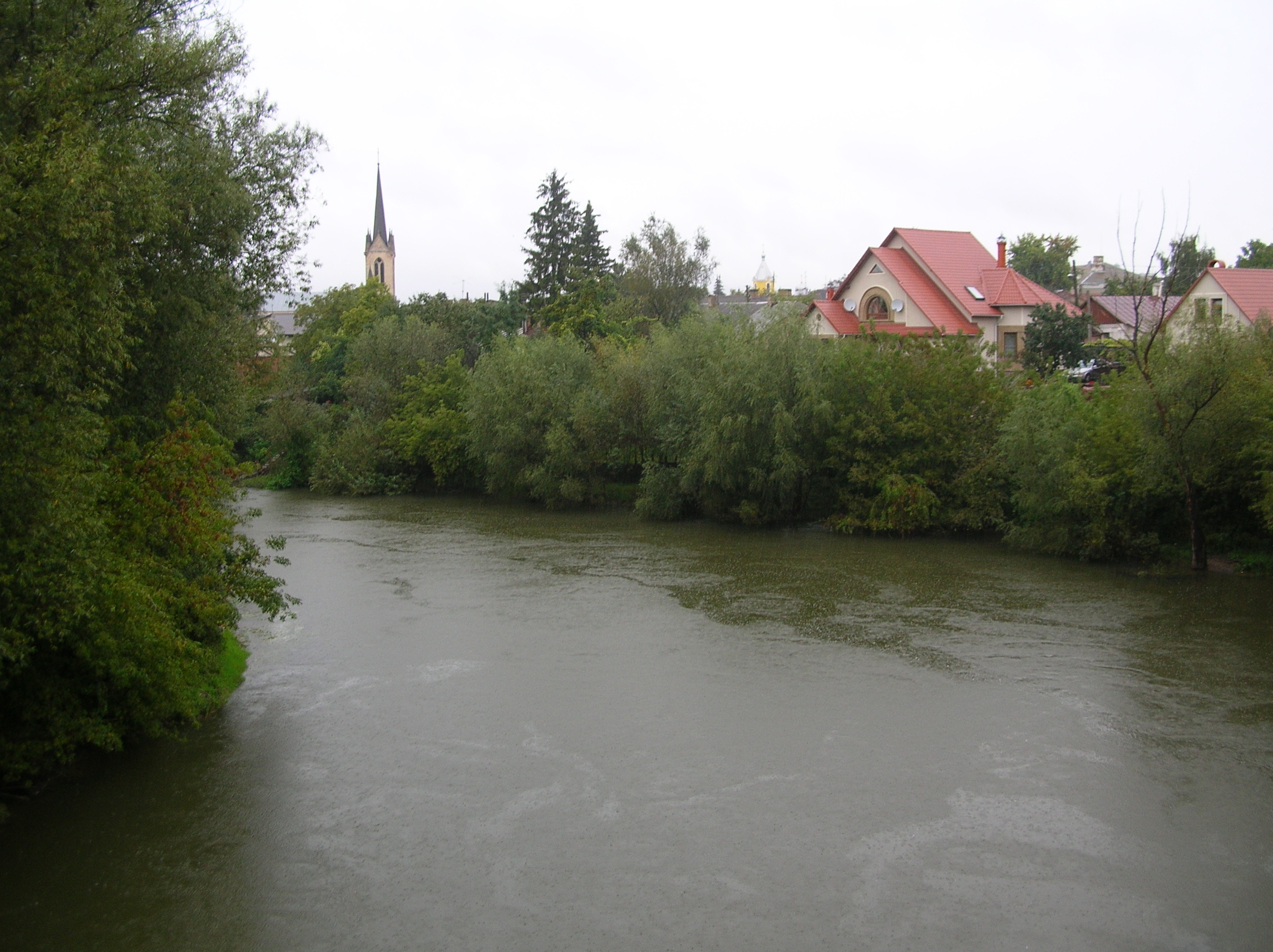 Styr River in the Lutsk. Lutheral church and Pokrovska church (Eastern Orthodox church) are visible in background.